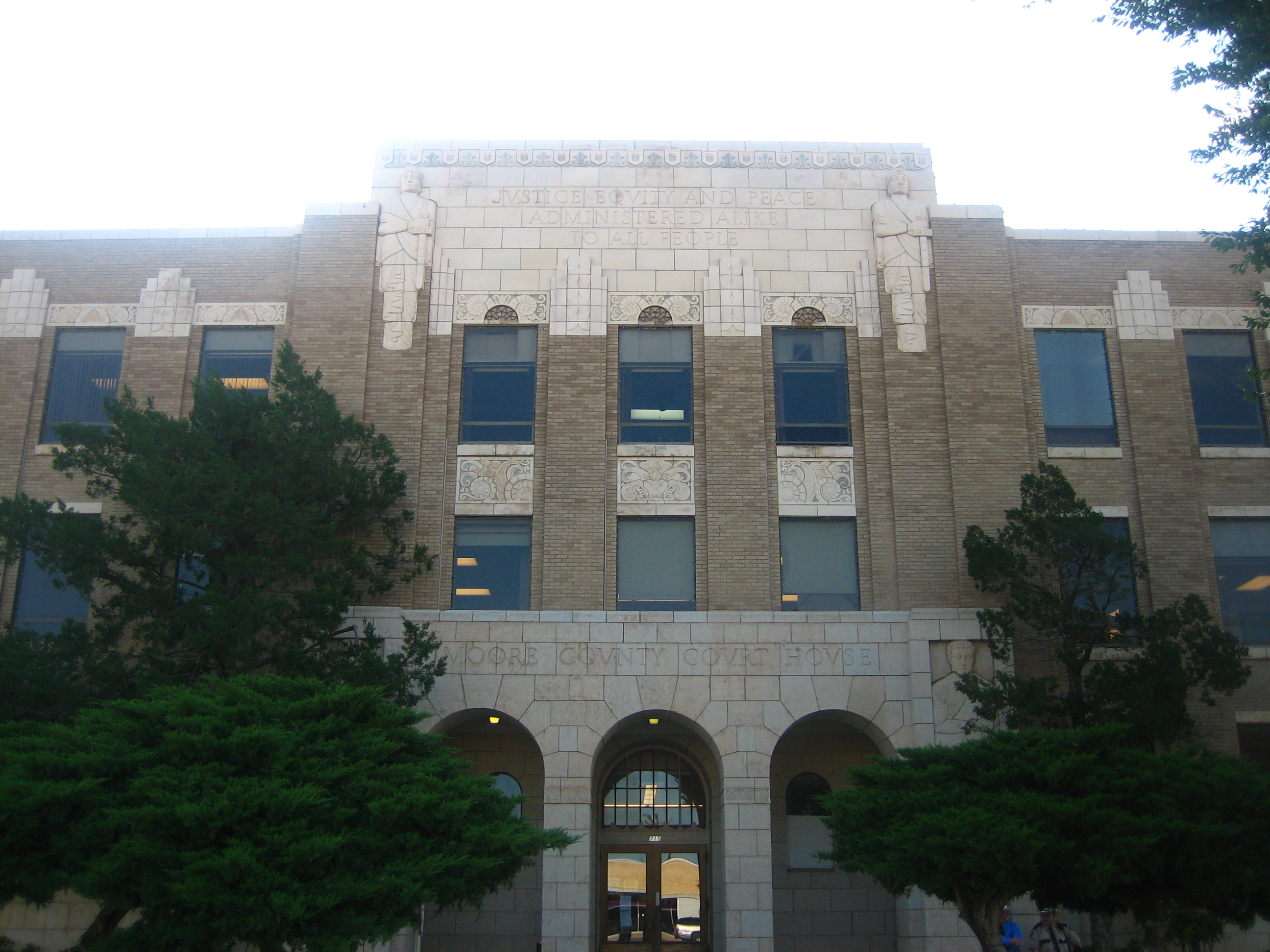 The Moore County Courthouse in Dumas, Texas, United States. I took photo on July 15, 2008.Billy Hathorn (talk) 19:17, 15 October 2008 (UTC)